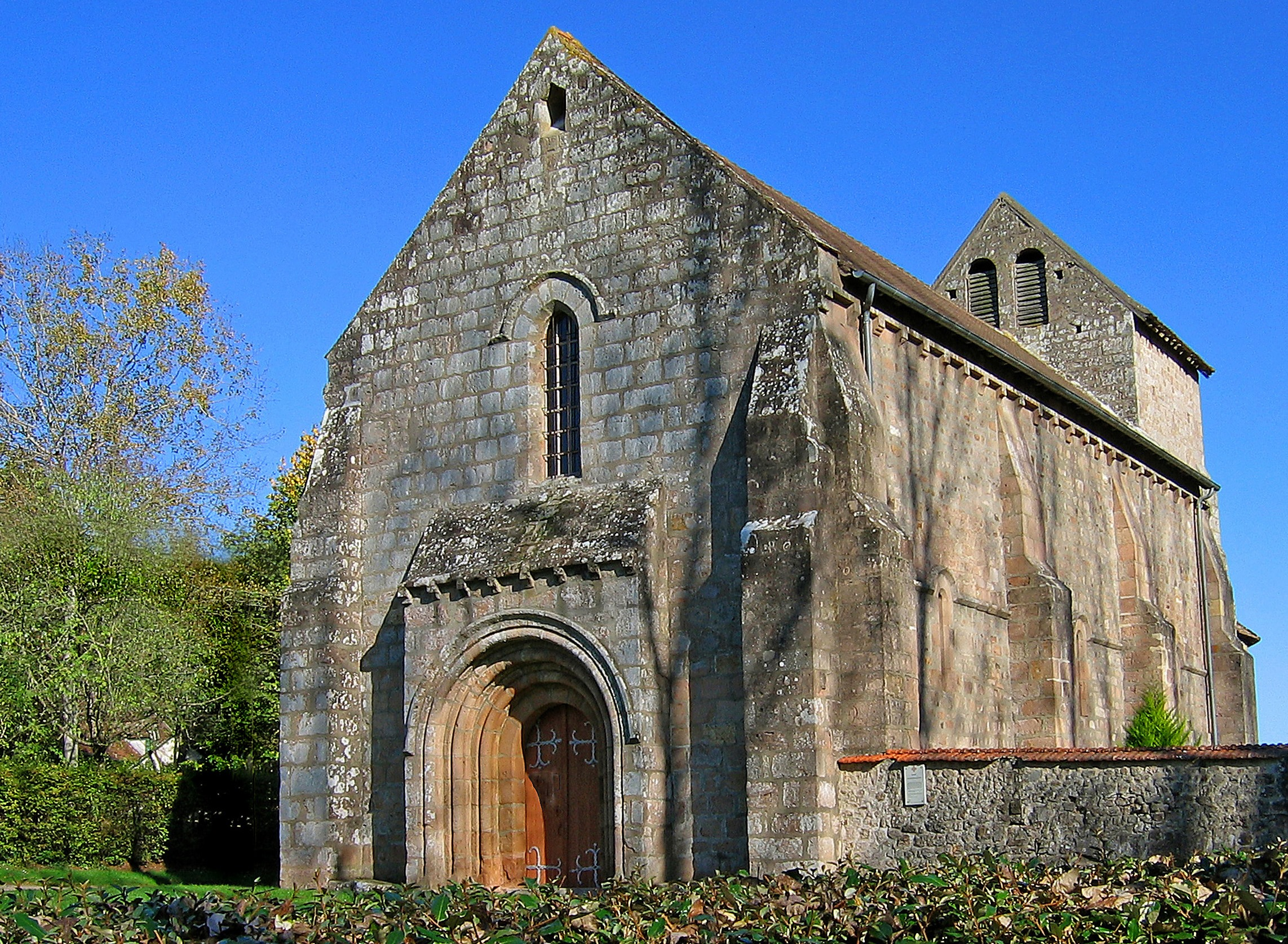 église templière de Braize